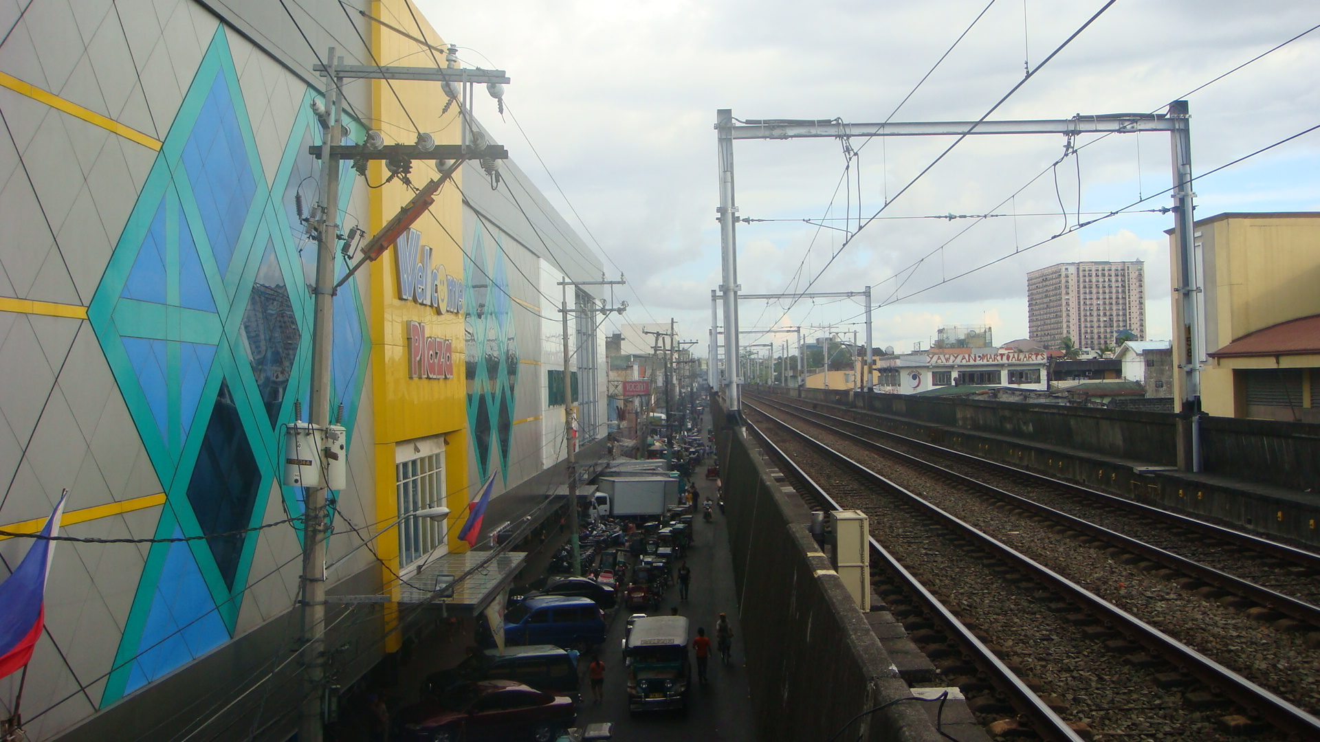 Libertal LRT Station